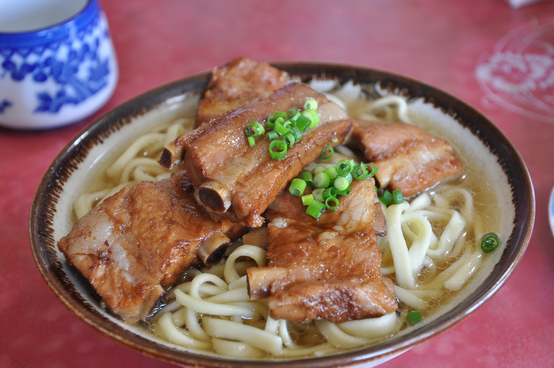 Okinawa soba, Yanabaru Soba, Motobu, Okinawa Prefecture, Japan